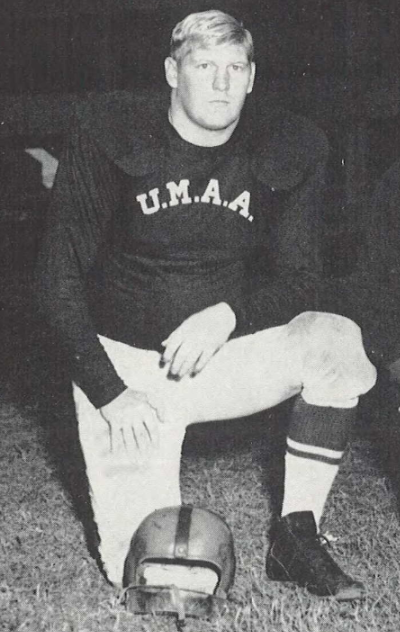 Photograph of University of Mississippi athlete Rex Boggan